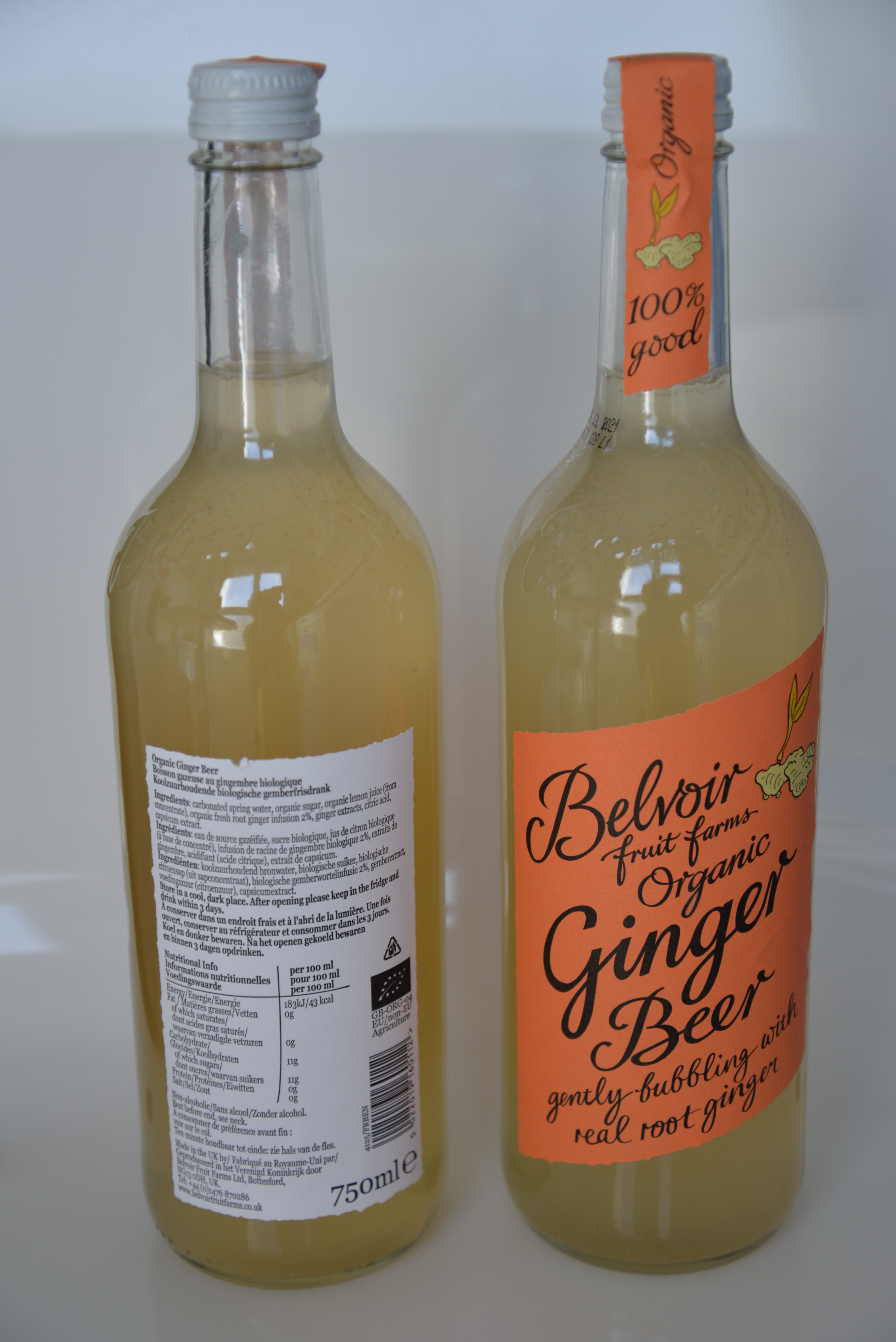 Two bottle of Belvoir fruits farms organic Ginger Beer.